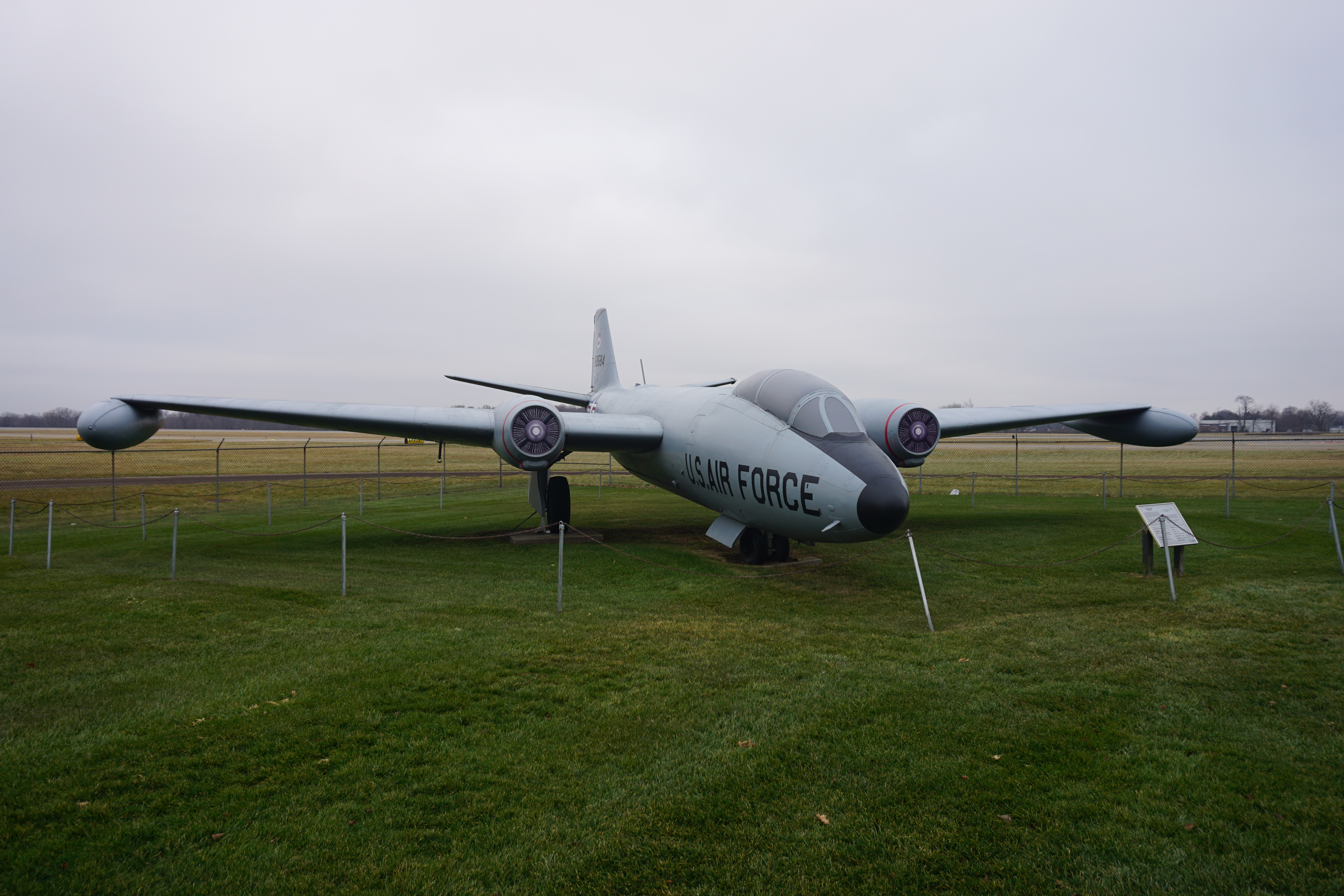 A Martin B-57B Intruder on display at the Air Zoo at Kalamazoo/Battle Creek International Airport in Portage, Michigan (United States).